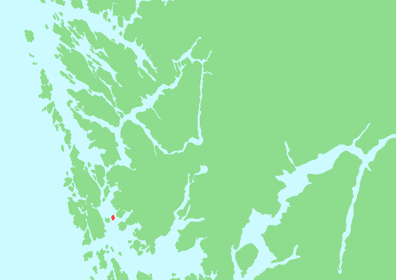 Locator map of Bjelkarøy, Hordaland, Norway